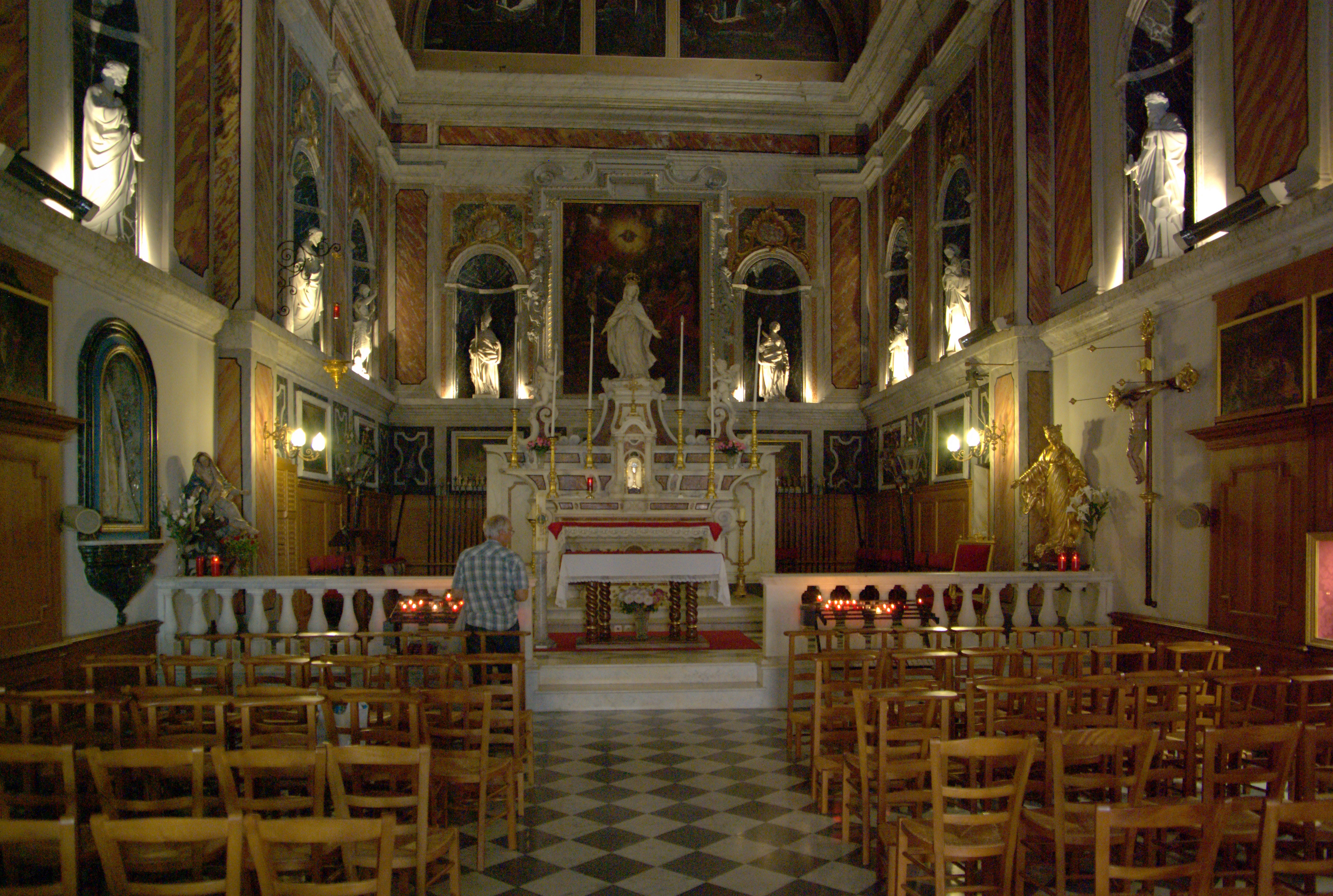 Monaco, Chapelle des Pènitents